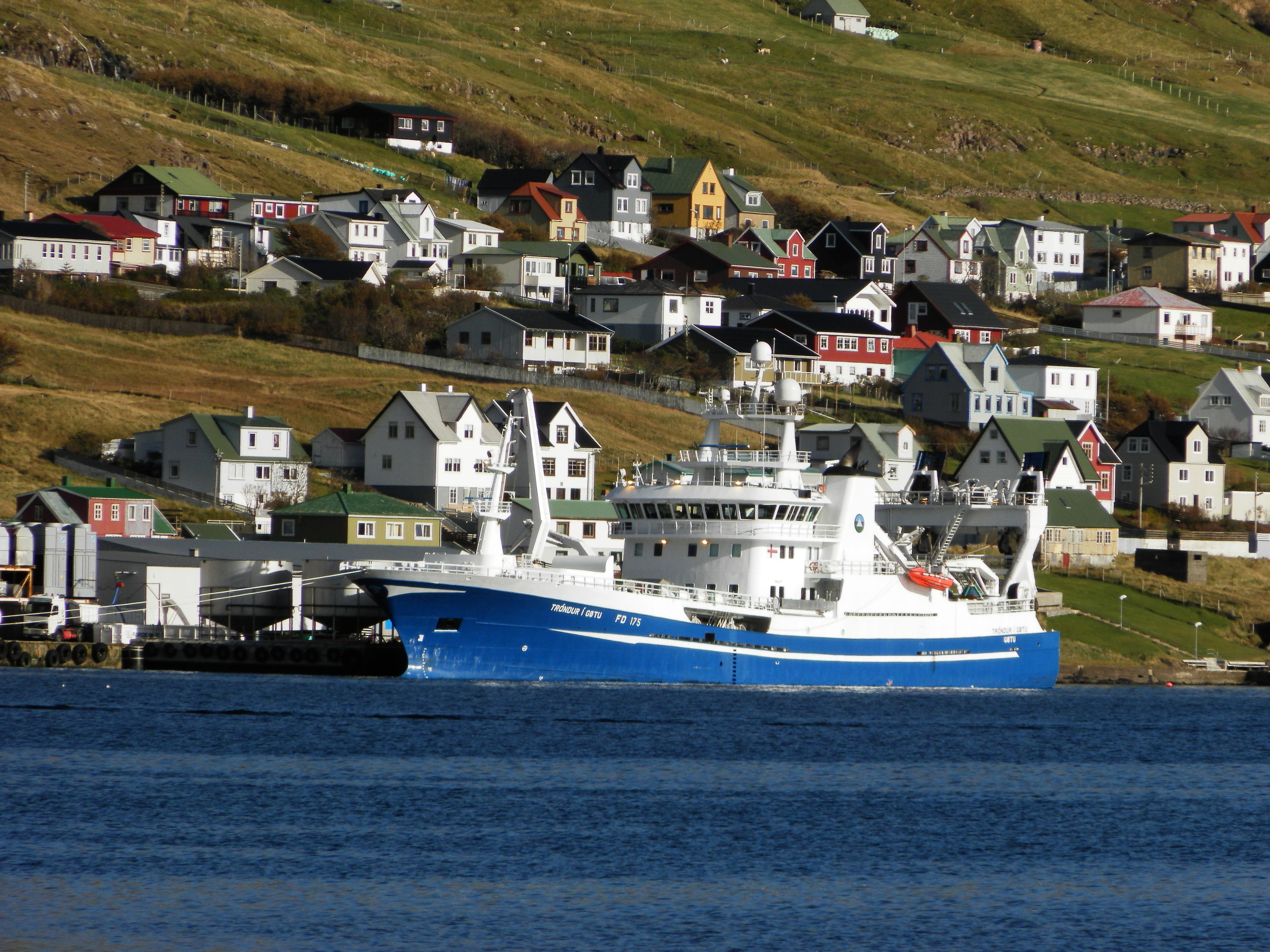 Tróndur í Gøtu is a Faroese fishing vessel, a trawler. It belongs to Varðin from Gøta in Eysturoy. The photo was taken in Tvøroyri in 2012. It was built in 2010 by Karstensens Skibsværft A/S, Skagen, Denmark. Lenght: 81,60 meter.